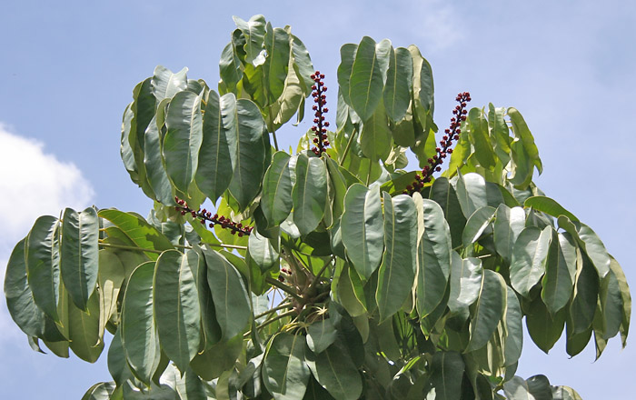 Octopus Tree Schefflera actinophylla in Hyderabad , India.